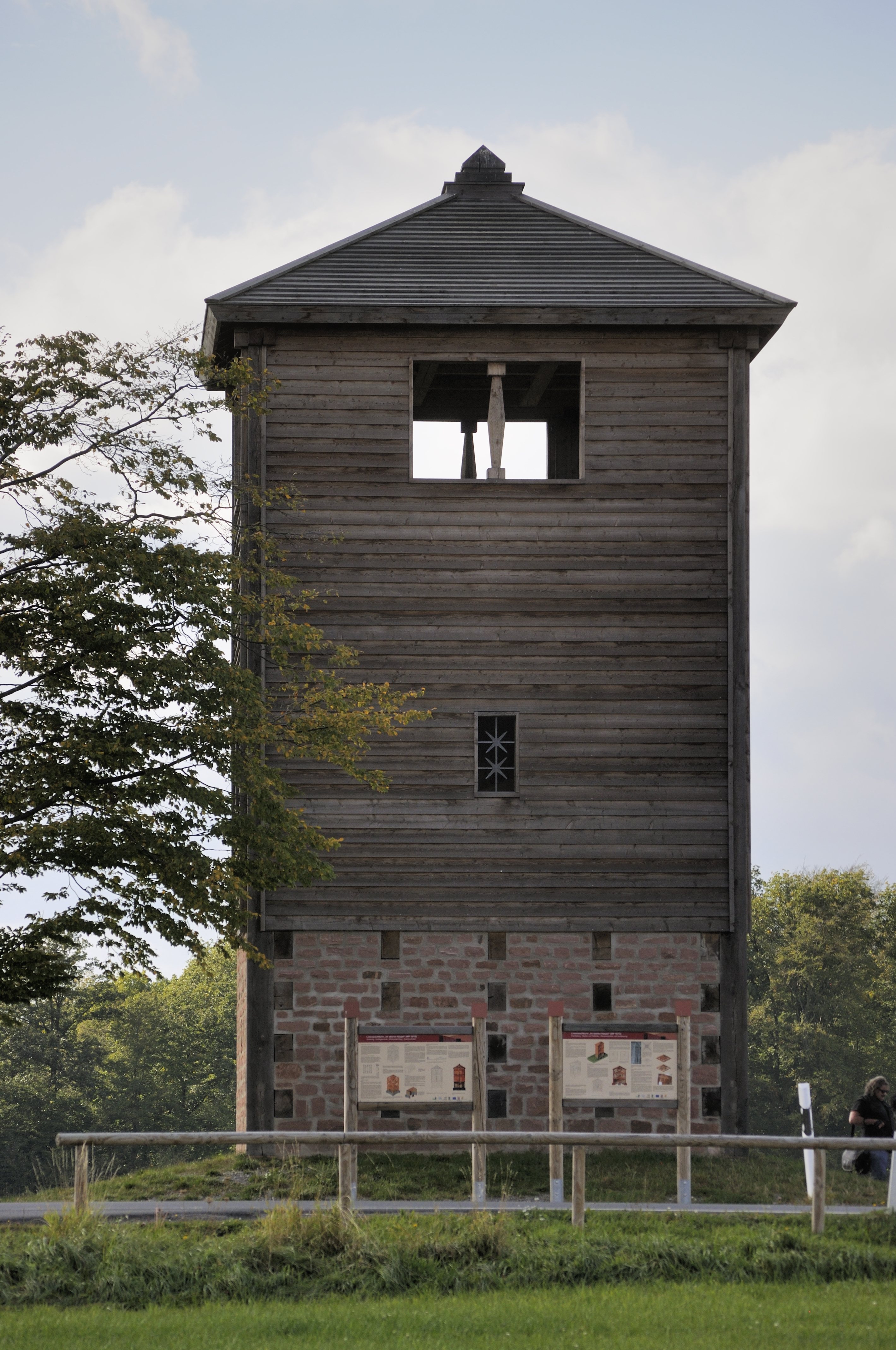 Limes tower Wp 10/15 „Im oberen Haspel“ next to Castellum Hainhaus.